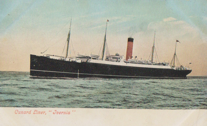 Postcard of Cunard liner SS Ivernia (launched 1899, sunk by U-boat 1 January 1917 with loss of 120 lives)